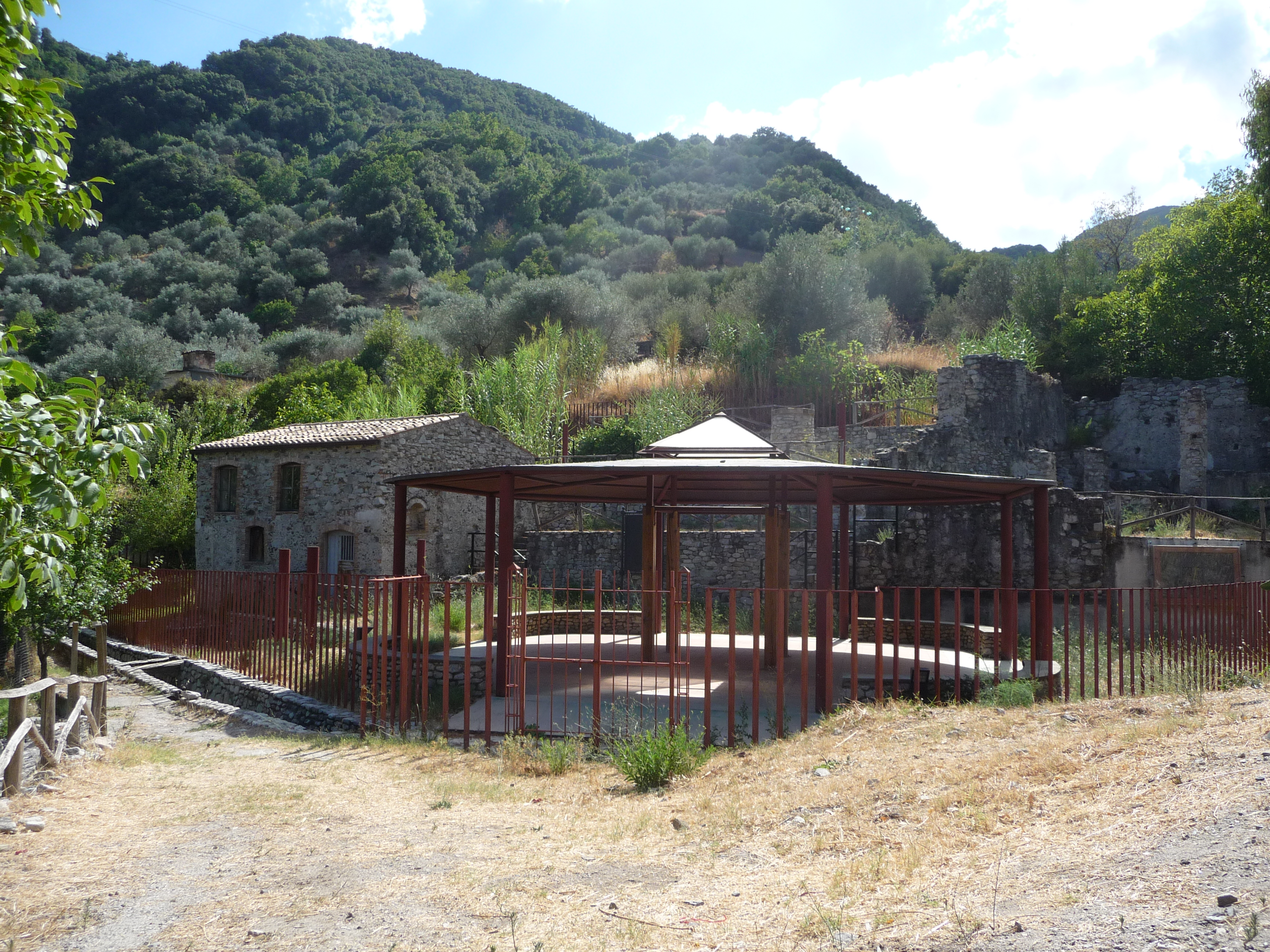 Mile Mulinu_do_furnu - Bivongi (RC) - Italy